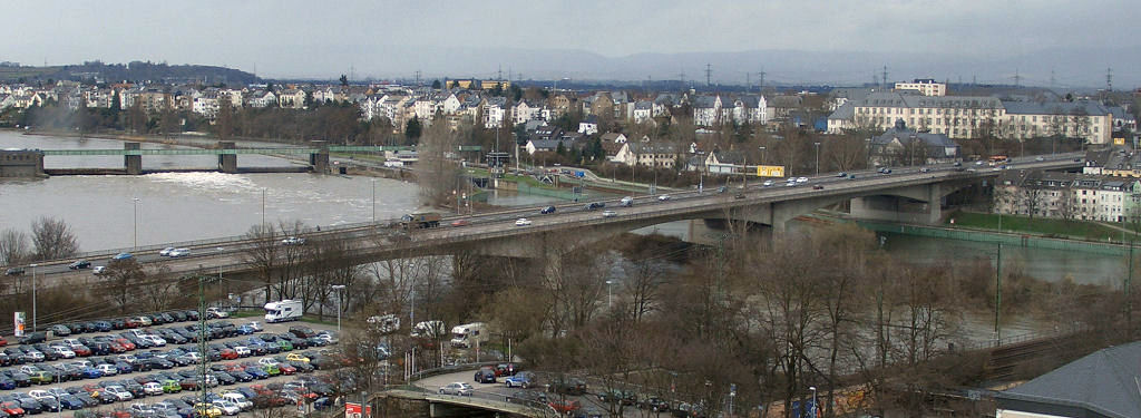 Europabrücke in Koblenz